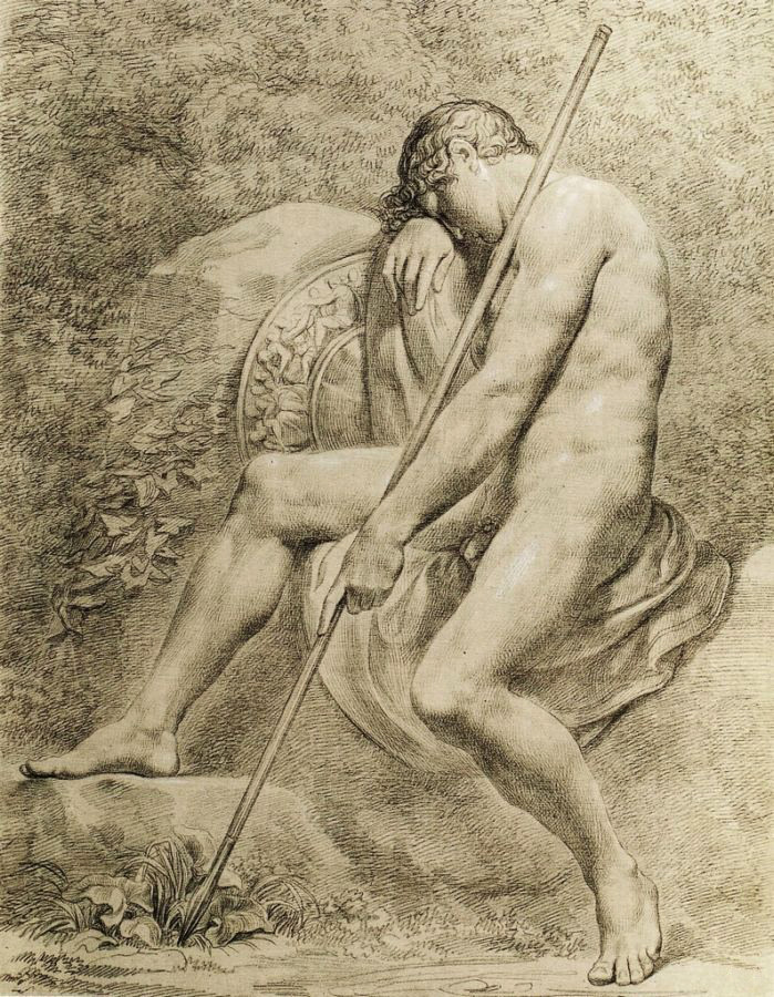 The sleeping Endymion, 1806-08. Pencil on paper. Pelagio Palagi (1775-1860)